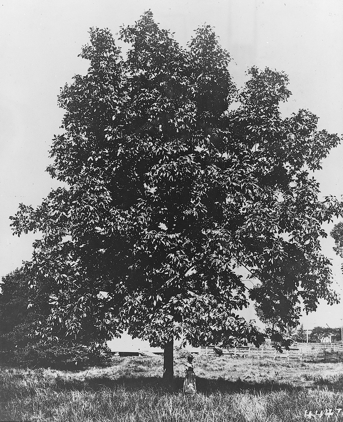 Carya laciniosa (Michx. f.) G. Don - shellbark hickory